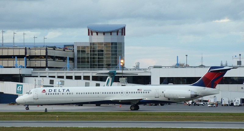 Delta Air Lines (McDonnell Douglas MD-88) at Portland International Jetport. Photo taken from public property.